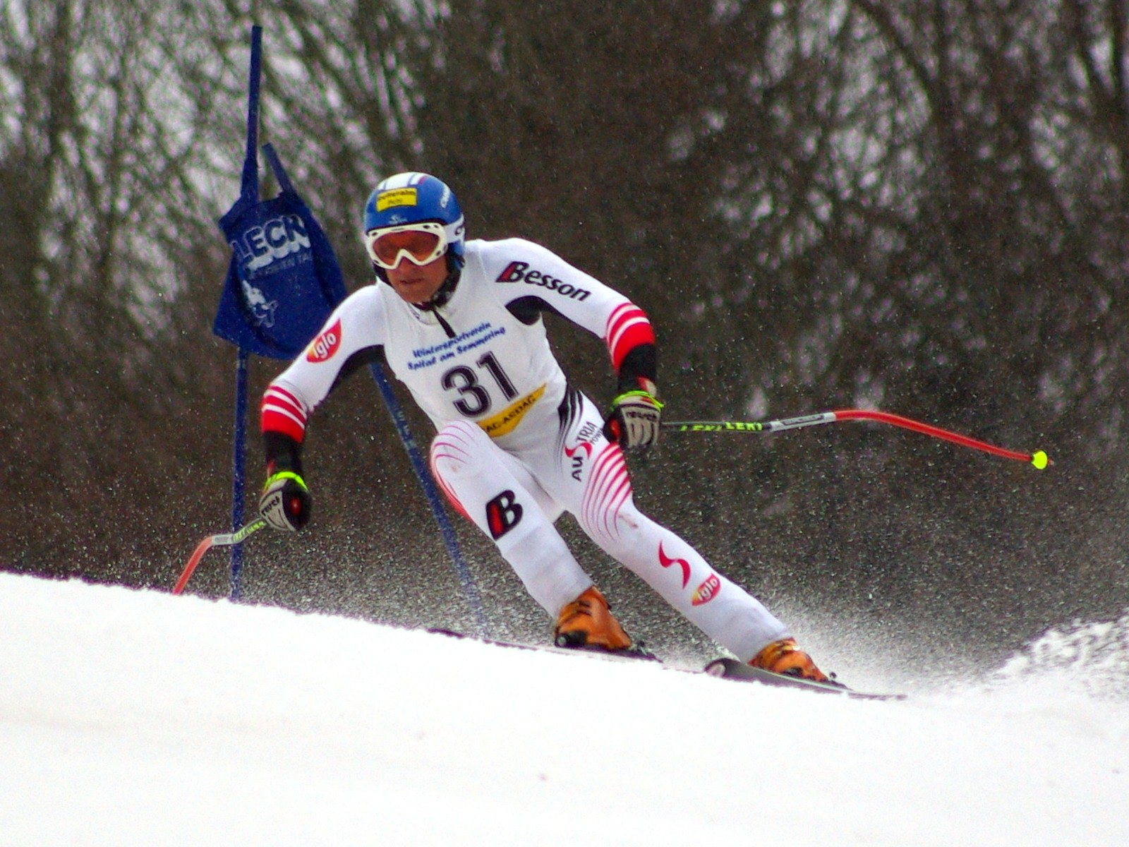 Austrian alpine skier Christoph Kornberger during the FIS-Super-G race in Spital am Semmering, Austria on 11 March 2008.